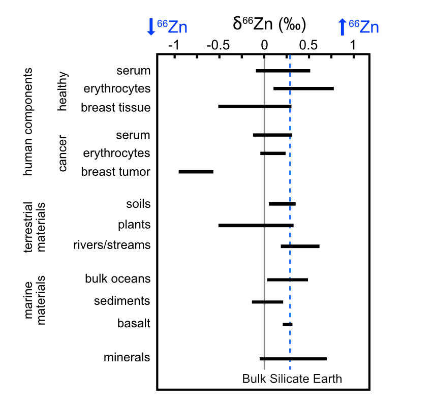 Natural variations in Zn isotopic compositions of various materials in the environment.